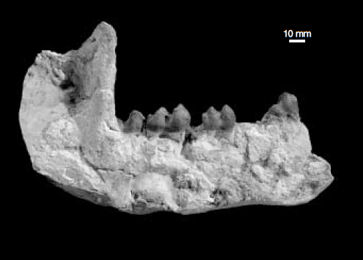 Daouitherium rebouli dentary with with ascending ramus and m1–3, p3. Labial view.